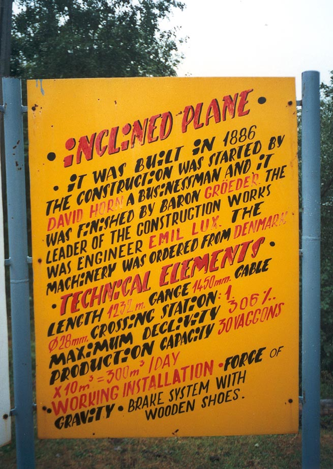 Inclined plane on the forest railway Covasna - Comandau (Romania) - table with technical data in lower station.